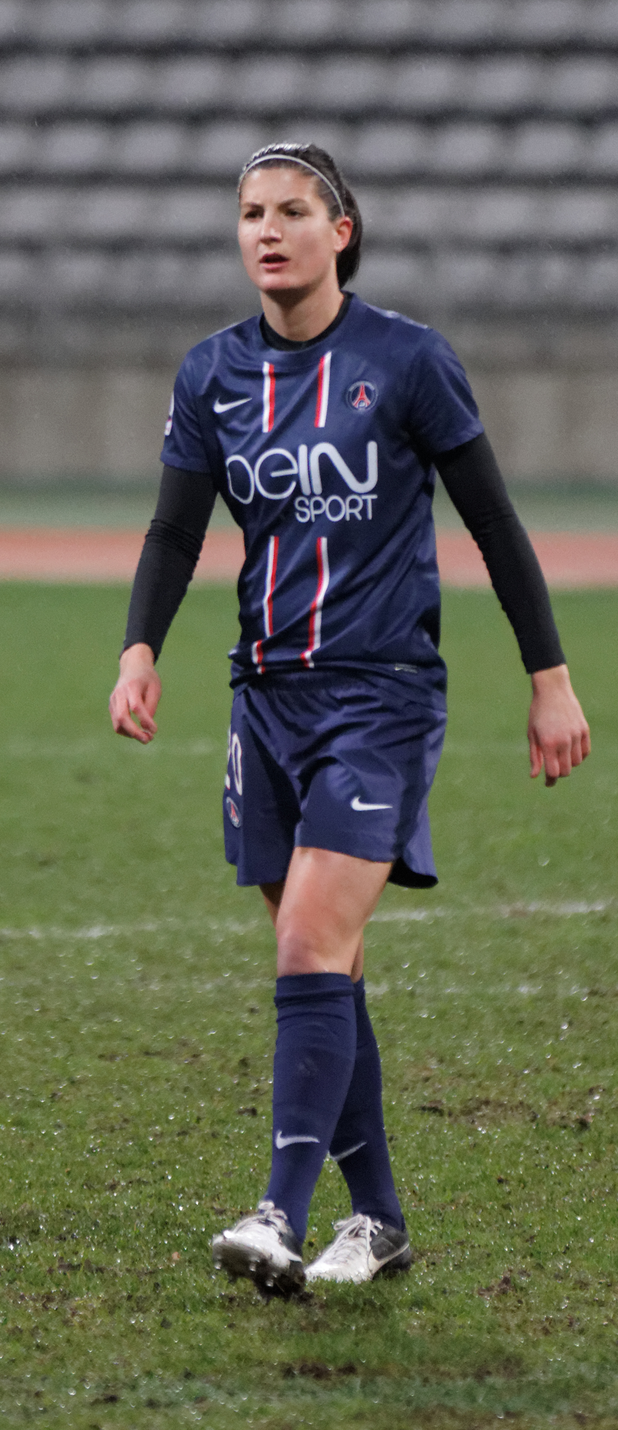 Caroline Pizzala, PSG-Montpellier, January 13th, 2013.